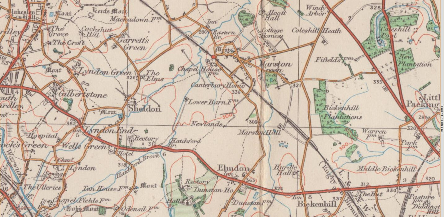 Where Birmingham Airport is now, as it was around 1921 (See [1] for a modern map of Birmingam Airport and around.)